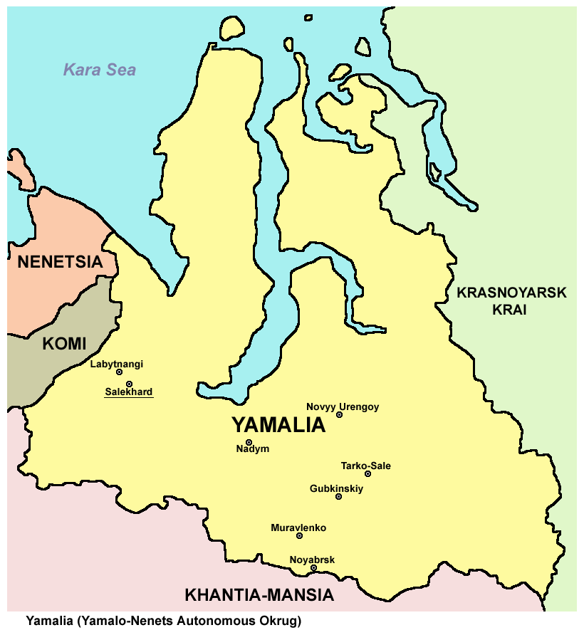 Map of Yamalia.